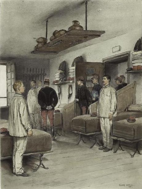 Infantry of the Line. Inspection in the rooms (1885). This illustration appeared in L'Armee Française by Jules Richard, illustrated by Édouard Detaille, first published in 1885.